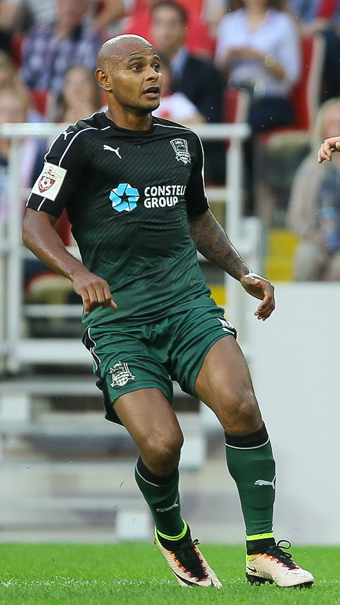 Ariclenes da Silva Ferreira